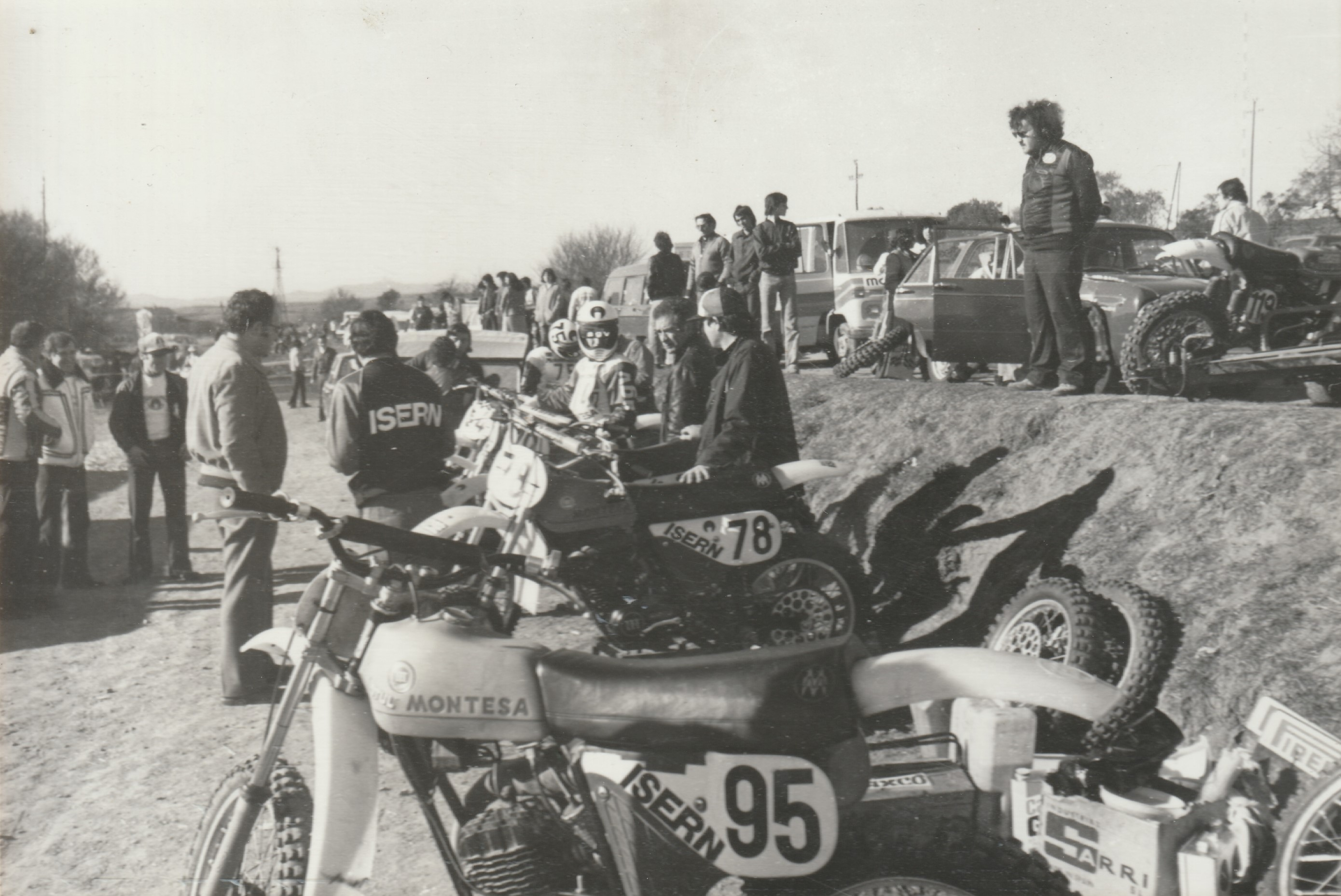 The team of the Escuderia Isern at parc fermé during the 1979 Trofeo Montesa in Gallecs. The Cappra number 78 was Francesc Suñer's one.